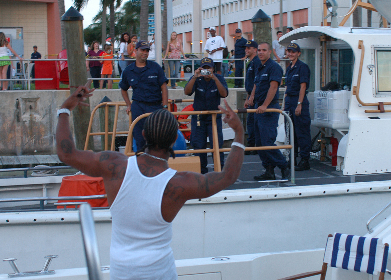 MIAMI (Aug. 29, 2004) -- MTV 2004 Video Music Awards performer Xzibit poses for a picture. USCG photo by PA2 Anastasia Burns.